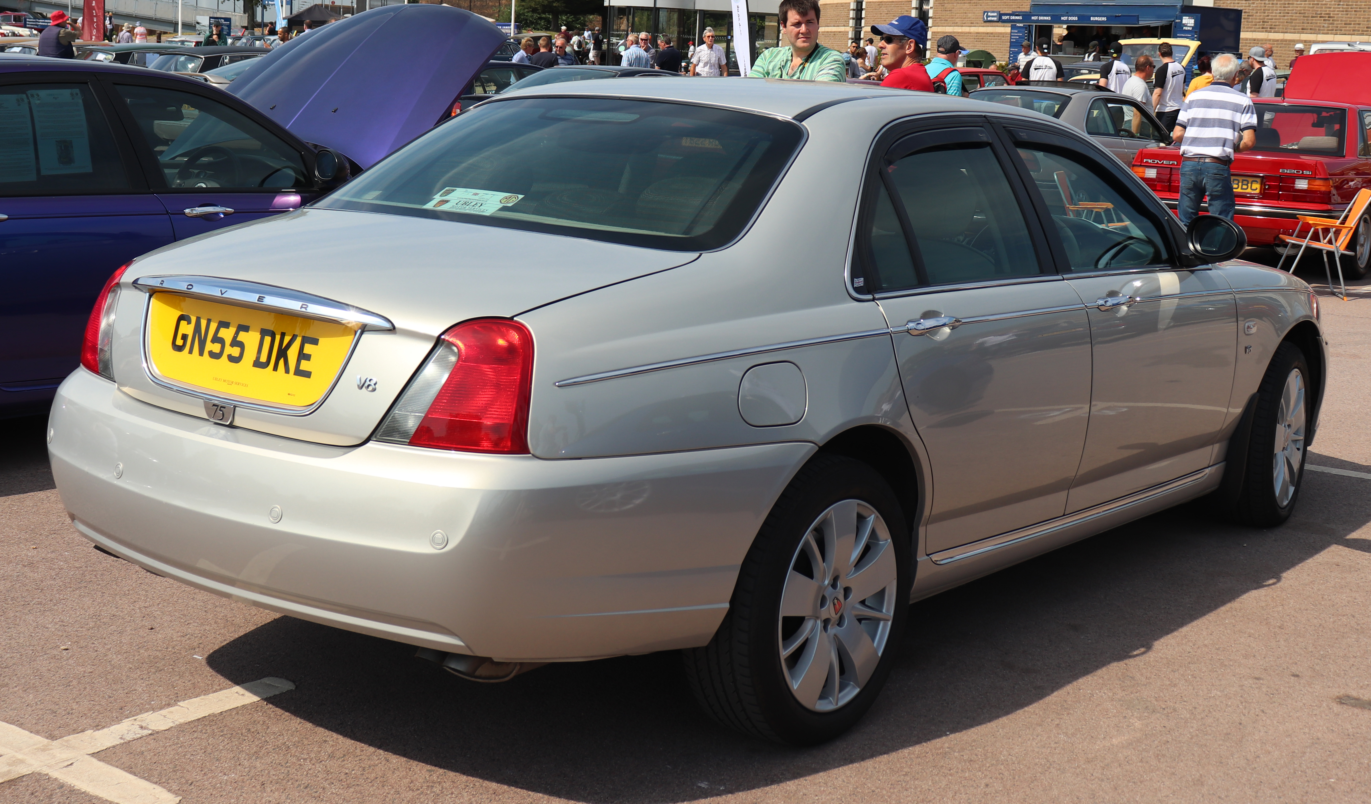 2005 Rover 75 V8 Connoisseur SE Automatic 4.6 Rear Taken at the British Motor Museum BMC & Leyland Show 2018, Gaydon